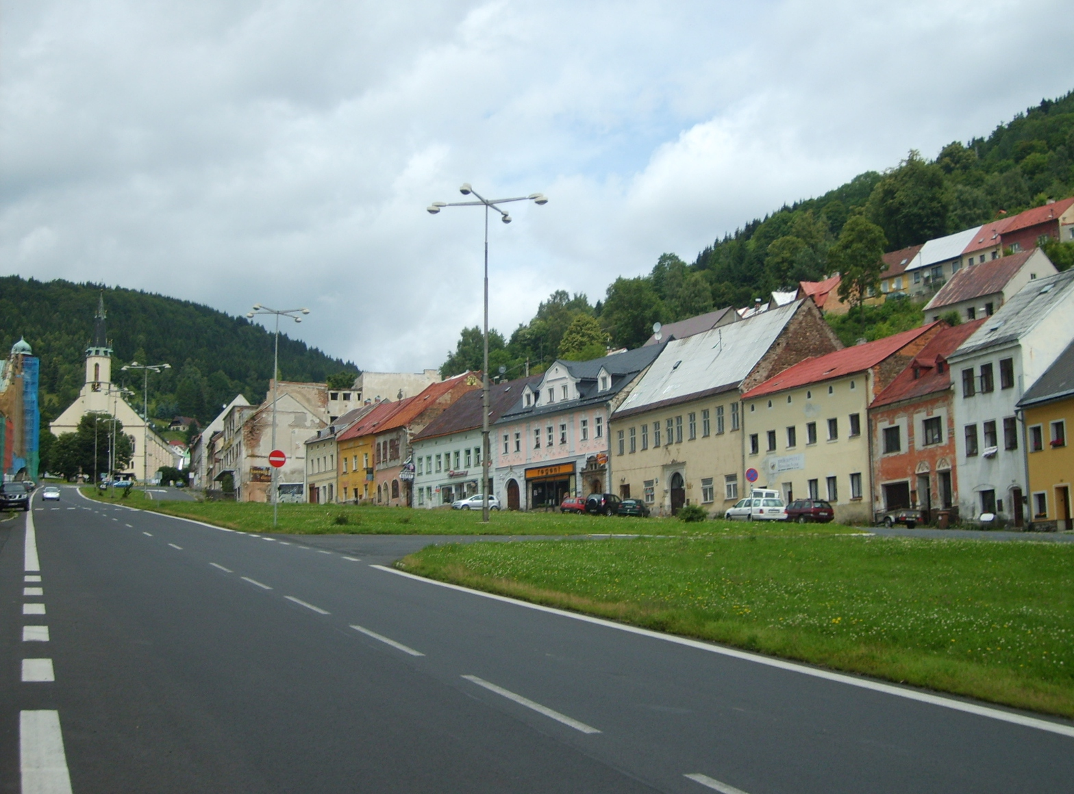 Upper northern part of Republic square in Jáchymov with main town church.